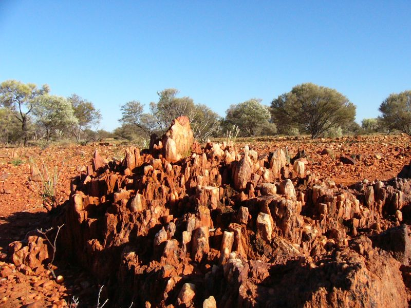 Stretched pebble conglomerate, Glengarry Basin of Western Australia, illustrating a stretching lineation developed within a shear zone. Photo by urer:Rolinator, released for free use.